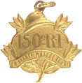 Regimental badge of the 150rd Infantry Regiment (France).